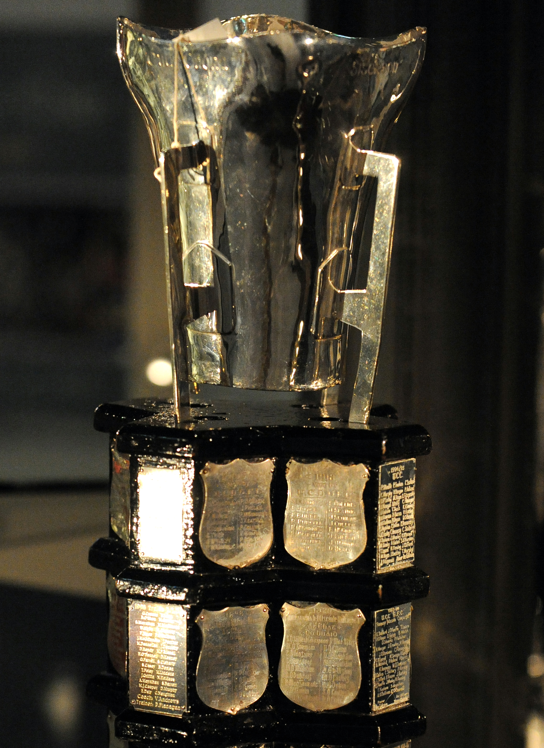 The Sigerson Cup donated by Dr George Sigerson for Intervarsity Gaelic Football competition in 1911. The cup is in the shape of a mether, an ancient Irish drinking vessel. It has four handles representing the four Irish provinces of Ireland - Connacht, Leinster, Munster, and Ulster. The Cup was first presented at a dinner in the Gresham Hotel, Dublin on Thursday 12 May, 1911 to University College Cork, the inaugural tournament winner. The base supporting the cup was extended to accommodate plaques with the names of the team members as space ran out on layers of the base. The original Cup is now in the GAA Museum, Dublin. A replica cup is now presented.